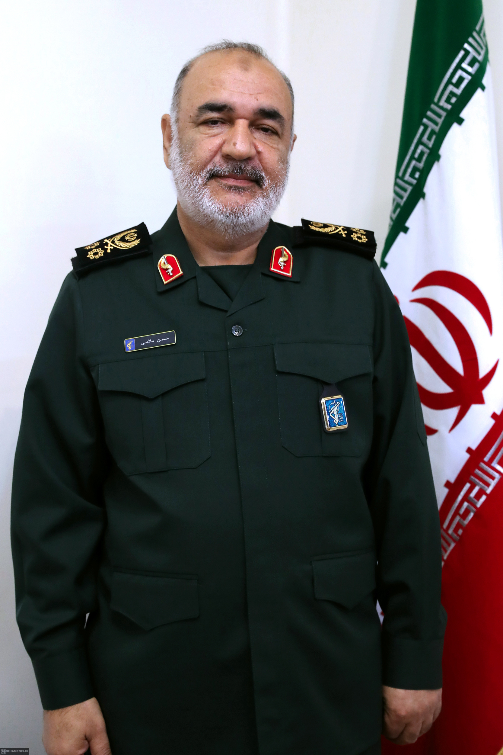 Hossein Salami